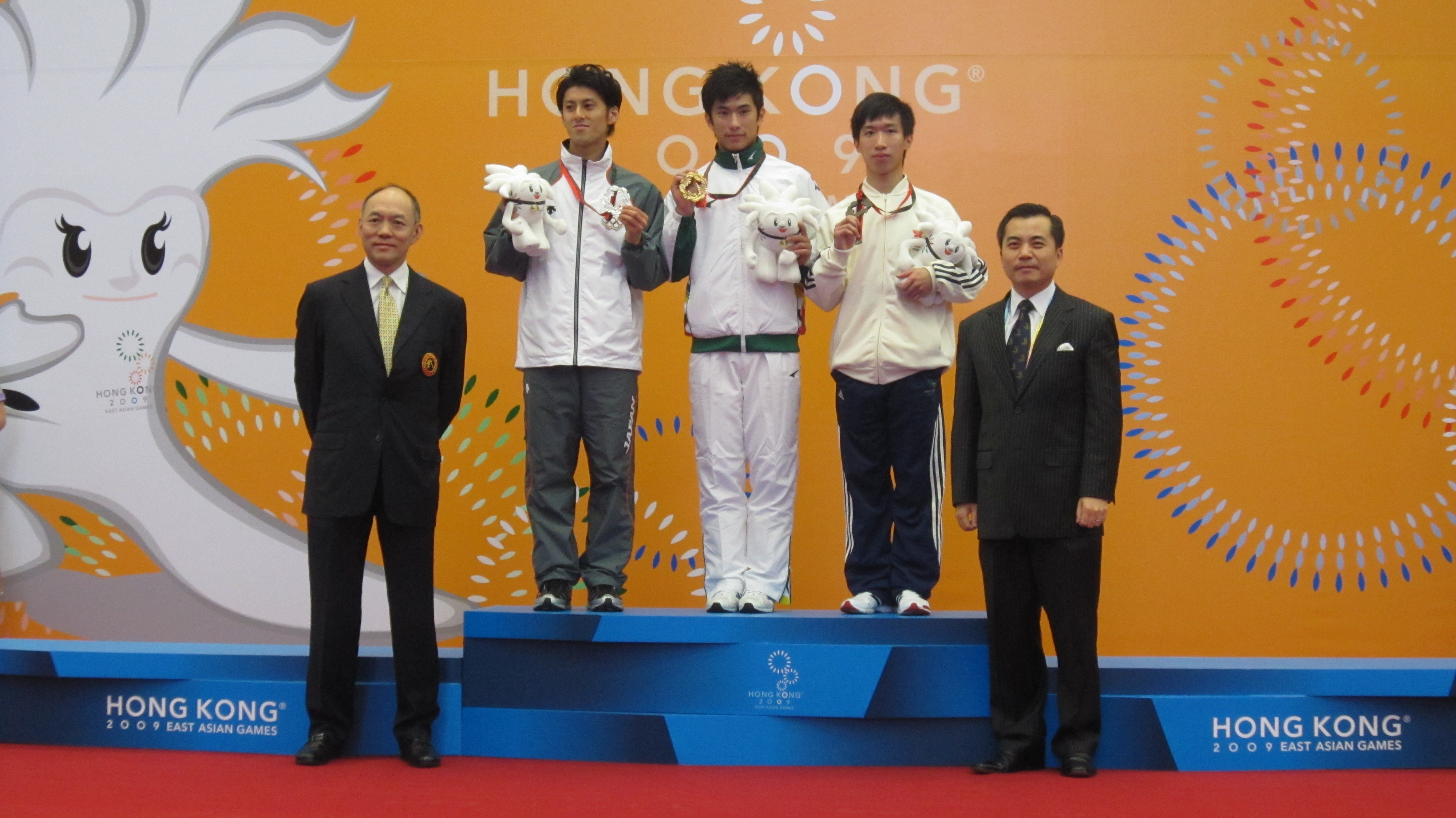 Hong Kong East Asian Games